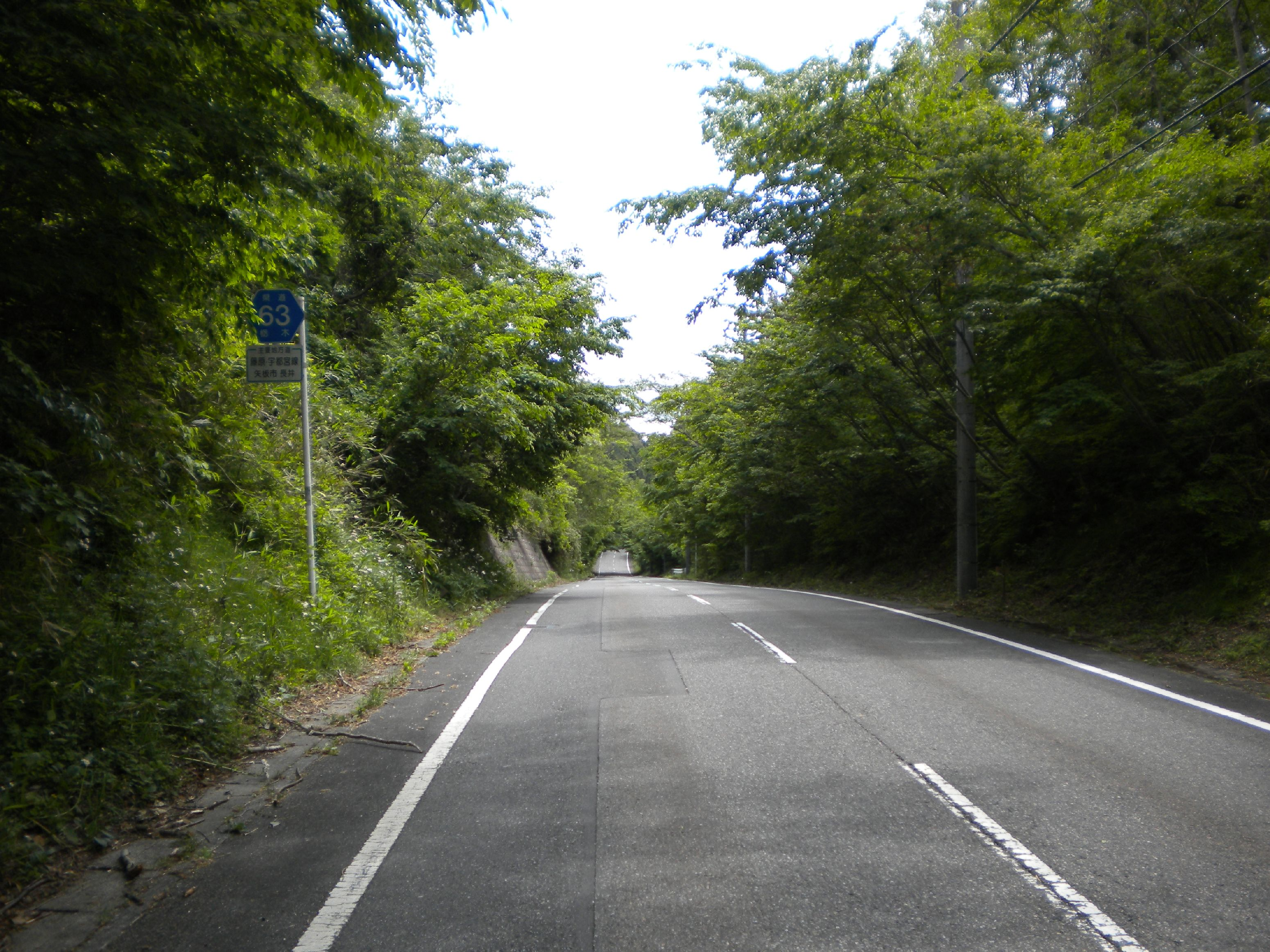 The Tochigi Prefectural Road Route 63 in Nagai, Yaita City